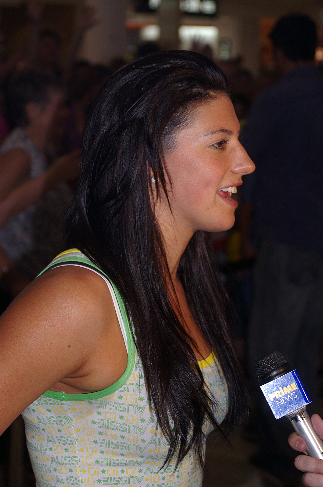 Stephanie Rice at the Wagga Wagga Marketplace for the launch of the Davenport range at Big W.